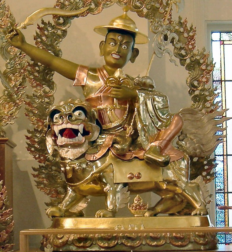 Cropped to show Dorje Shugden. Original description was: Interior, Kadampa Buddhist Temple, 6556 24th Ave NW (Ballard neighborhood) Seattle, Washington, USA. Statues of Dharma Protector Dorje Shugden (center) and his retinue, stained glass window.